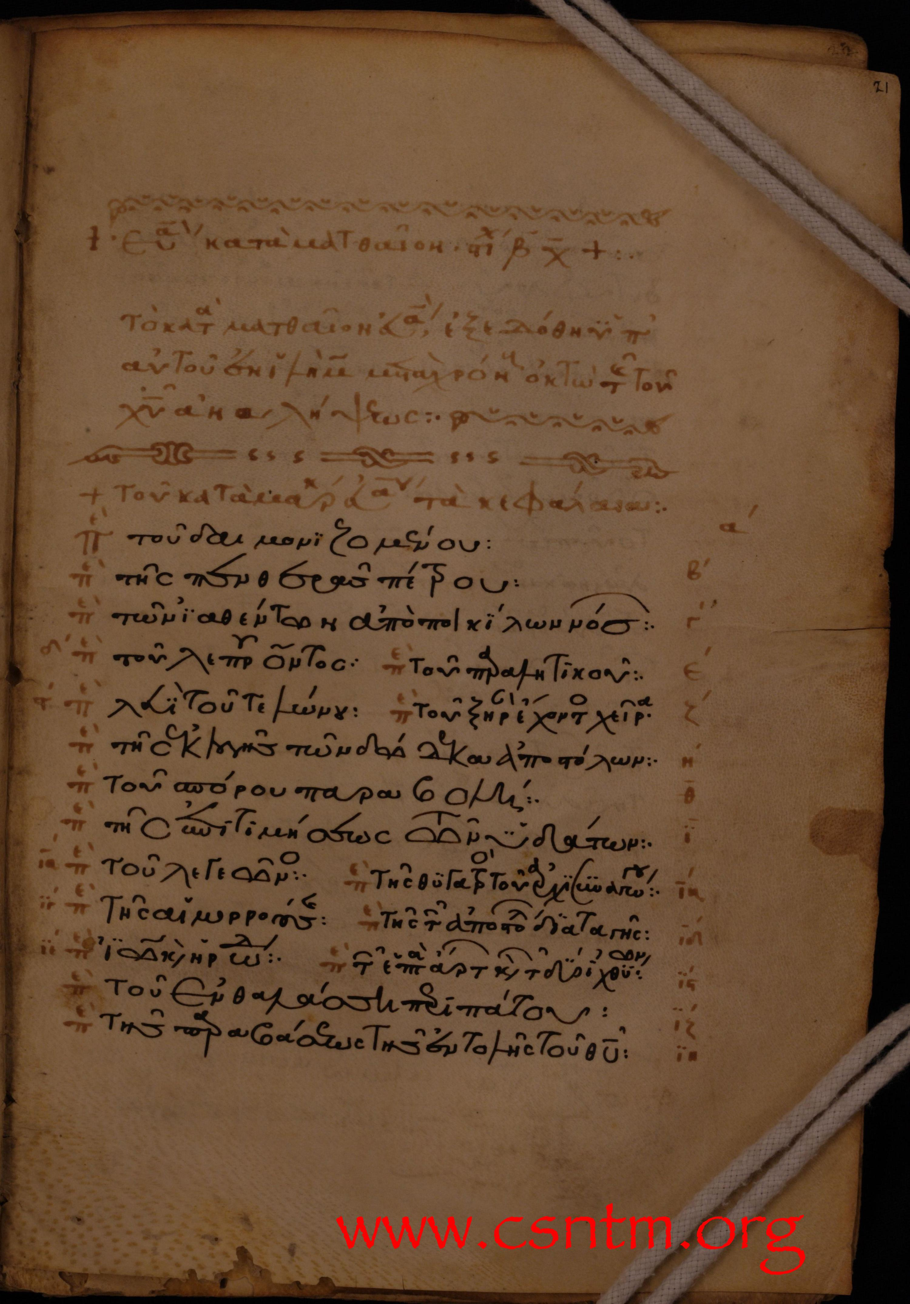 folio 21 recto with the tables of κεφαλαια to the Gospel of Matthew